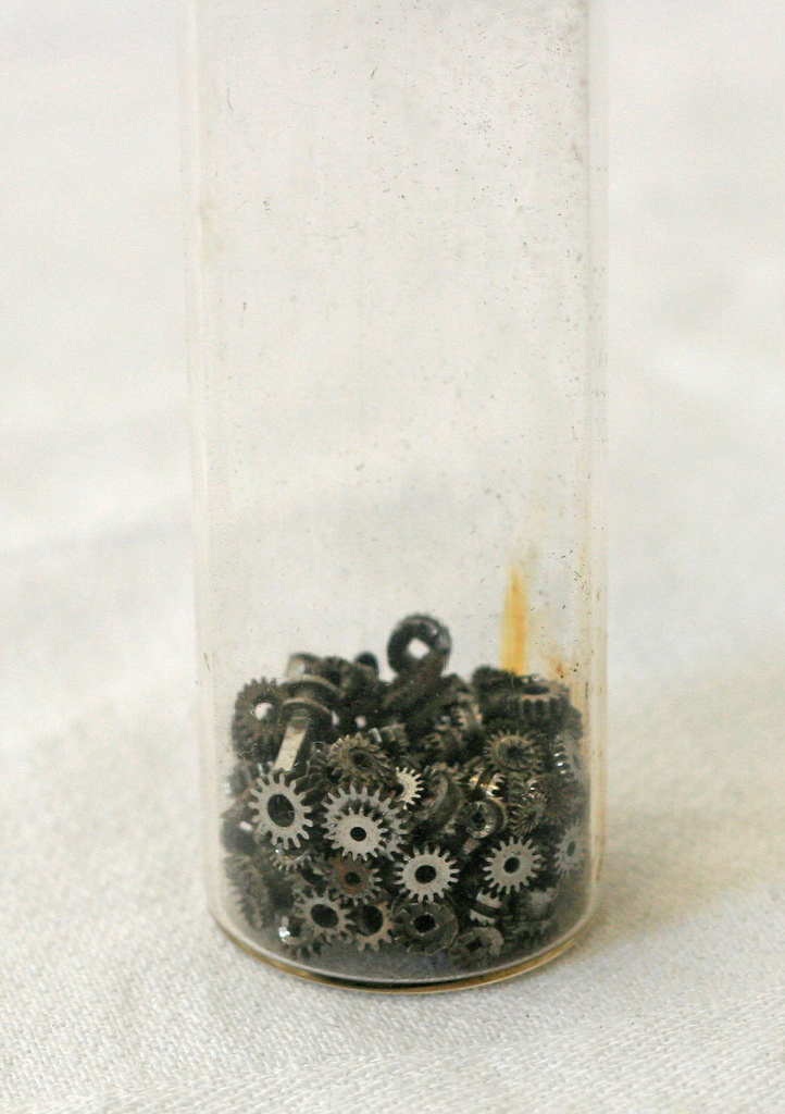 Wristwatch spare parts